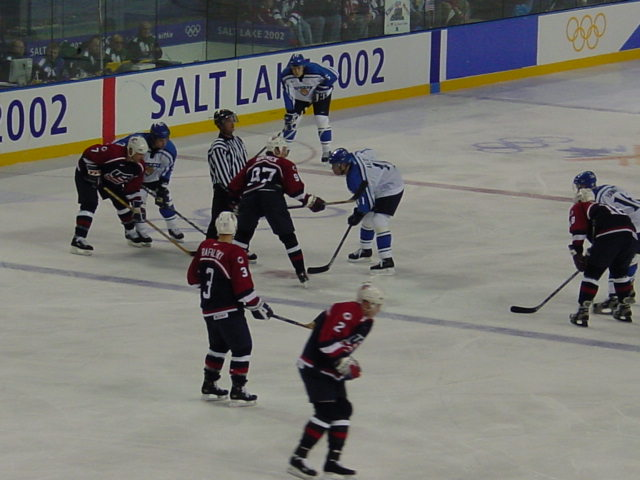 USA vs Finland faceoff, Winter Olympics 2002.